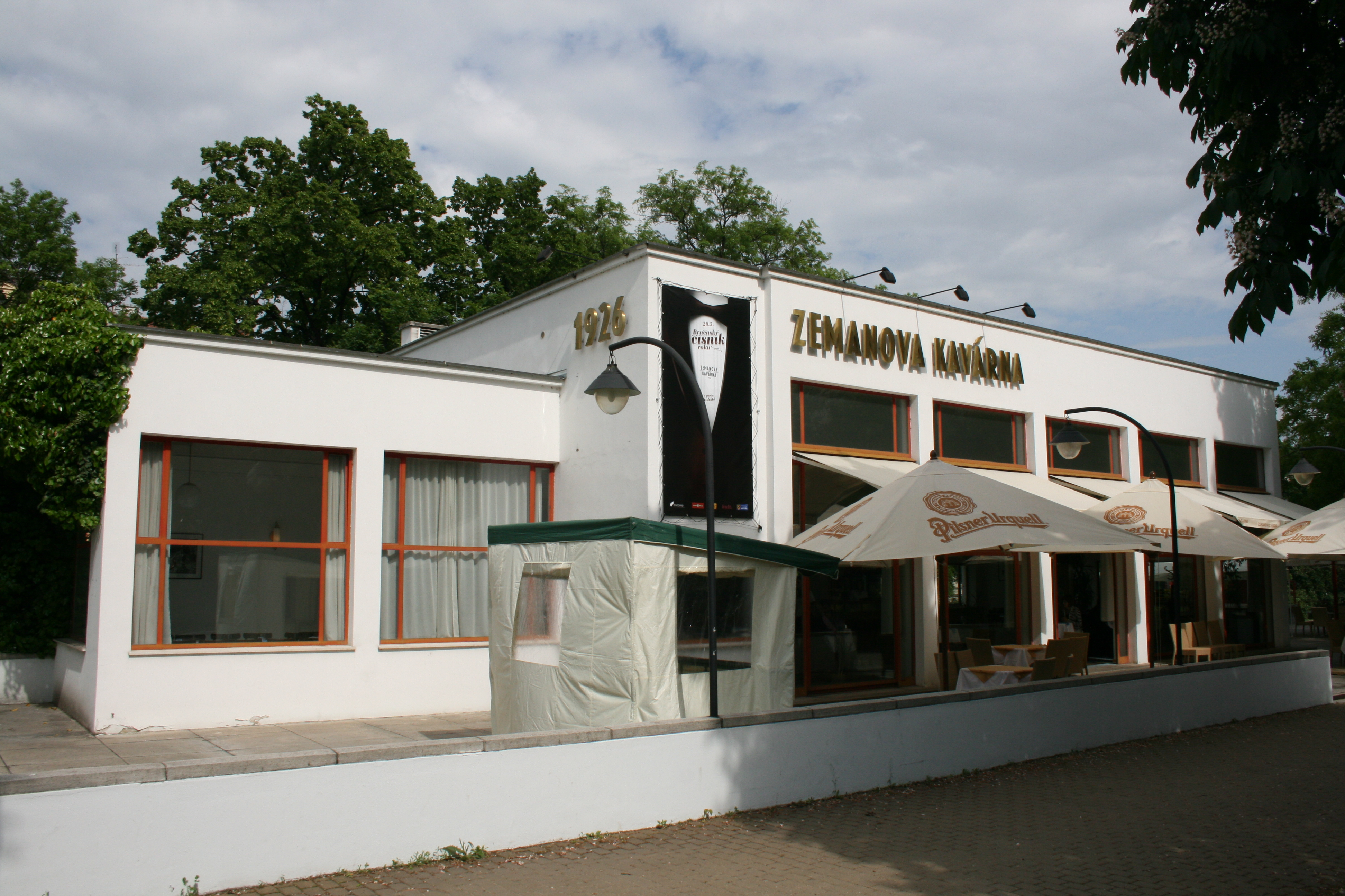 Zeman's café, functionalist building by Bohuslav Fuchs, re-build in 1995.